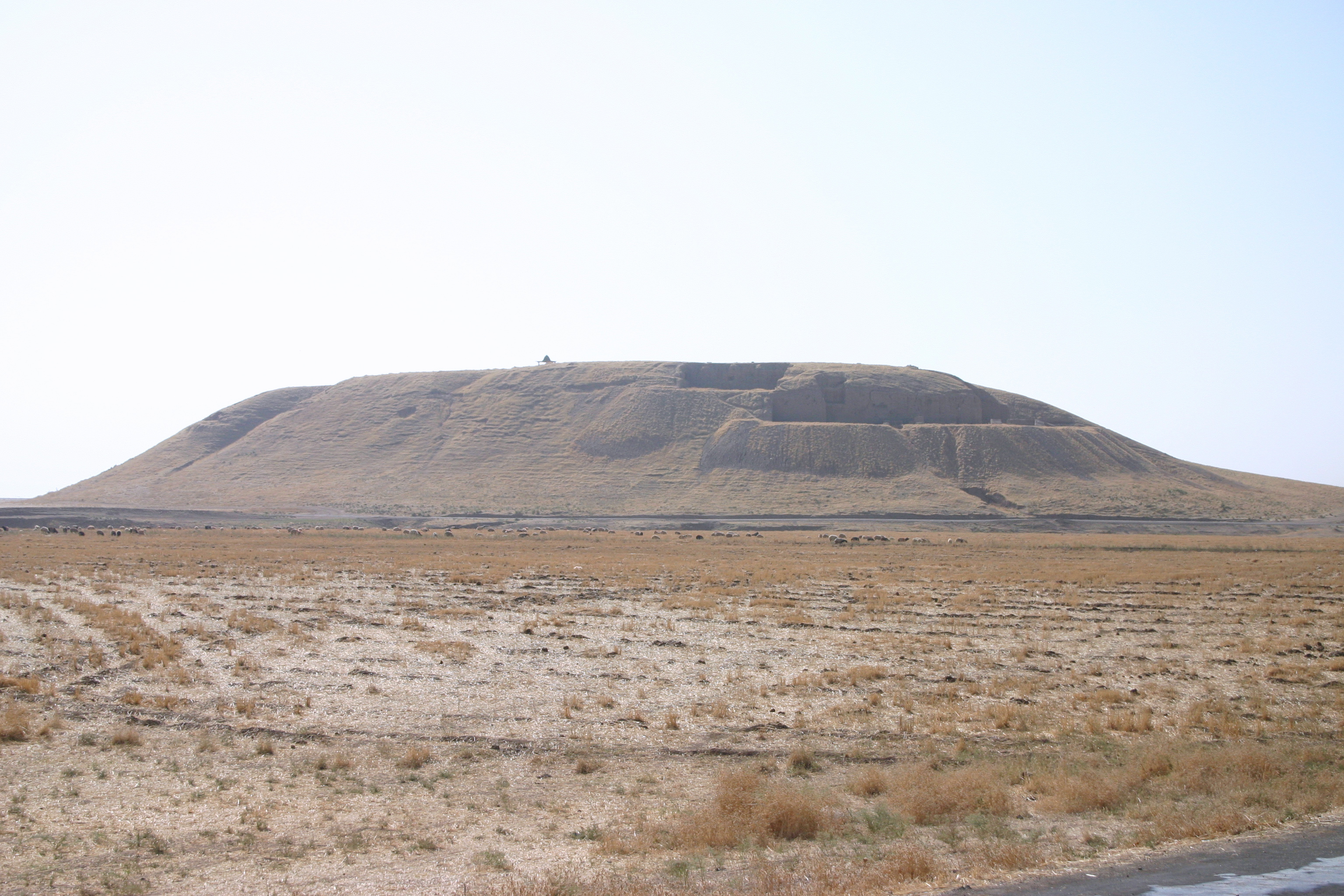 View of Tell Barri (northeast Syria) from the west. Note the sheep in the front of the tell for scale